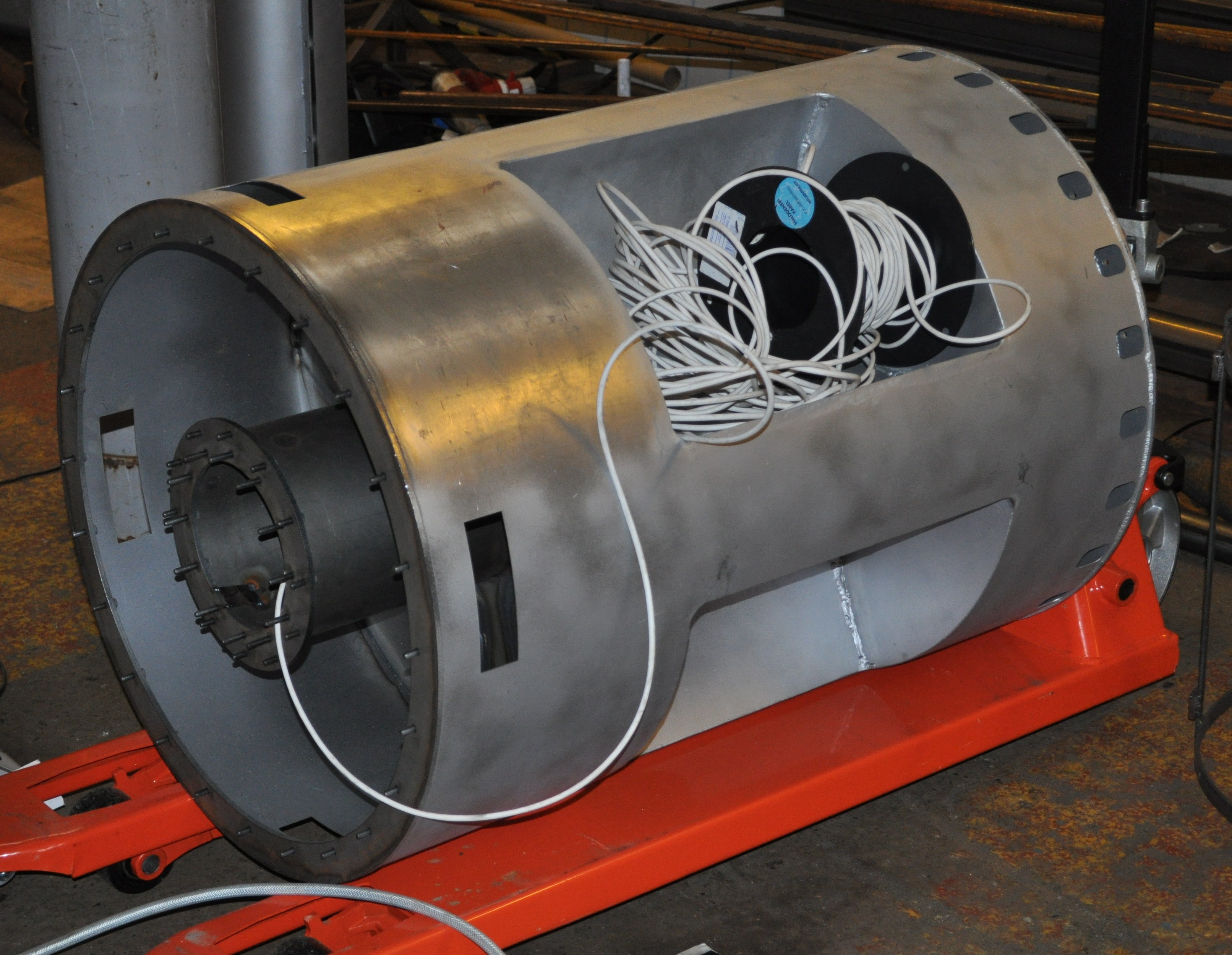 This compartment will contain both the high-speed drogue parachute and the low-speed main parachutes for decelerating the micro spacecraft (MSC). This version is 640 mm in diameter and should support a crash test dummy flight in June 2010 to 40 km. The MSC supporting a person would be 800 mm in diameter.